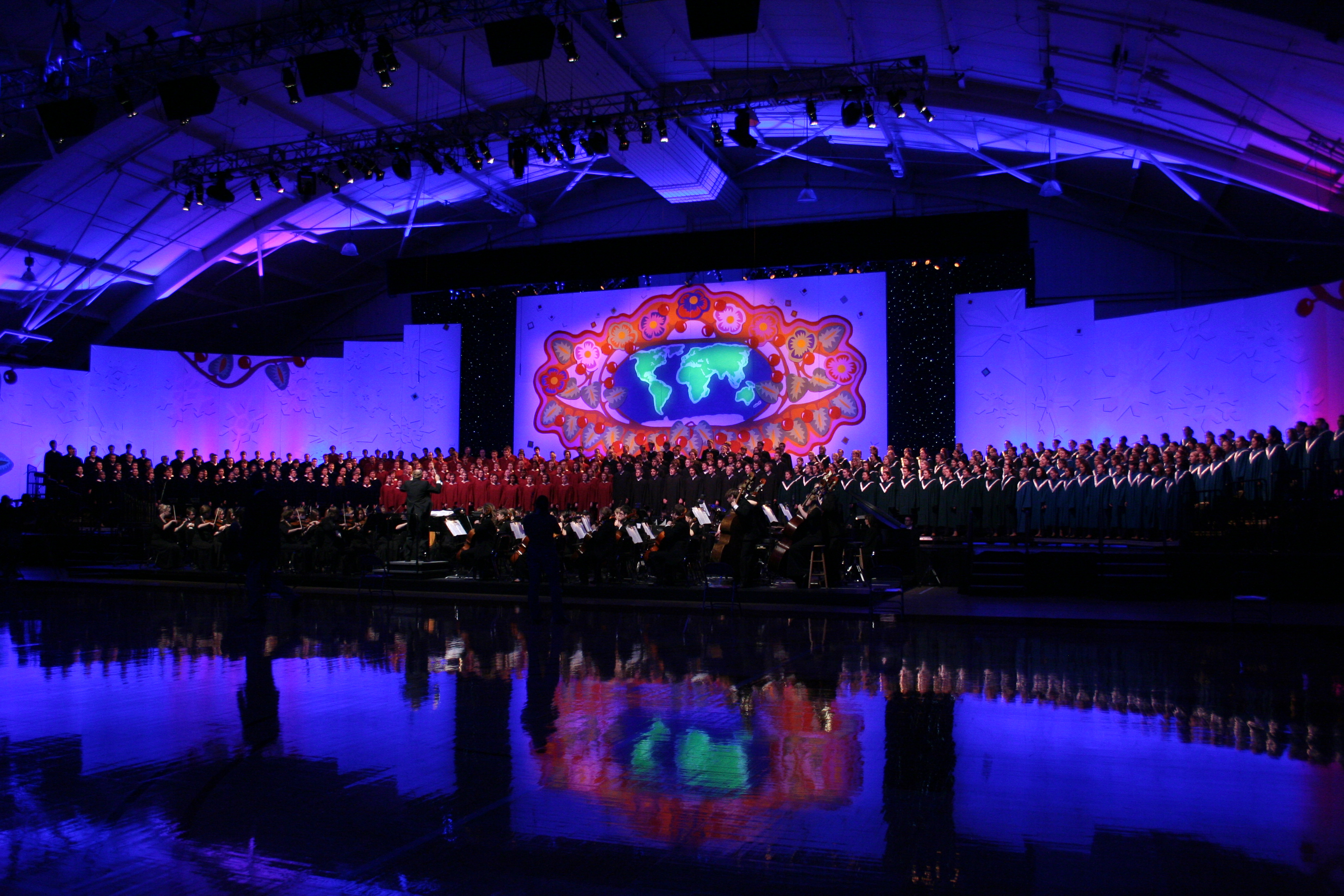 2008 Christmas Concert at Concordia College, in Moorhead, MN. LED lighting is used to illuminate the mural.